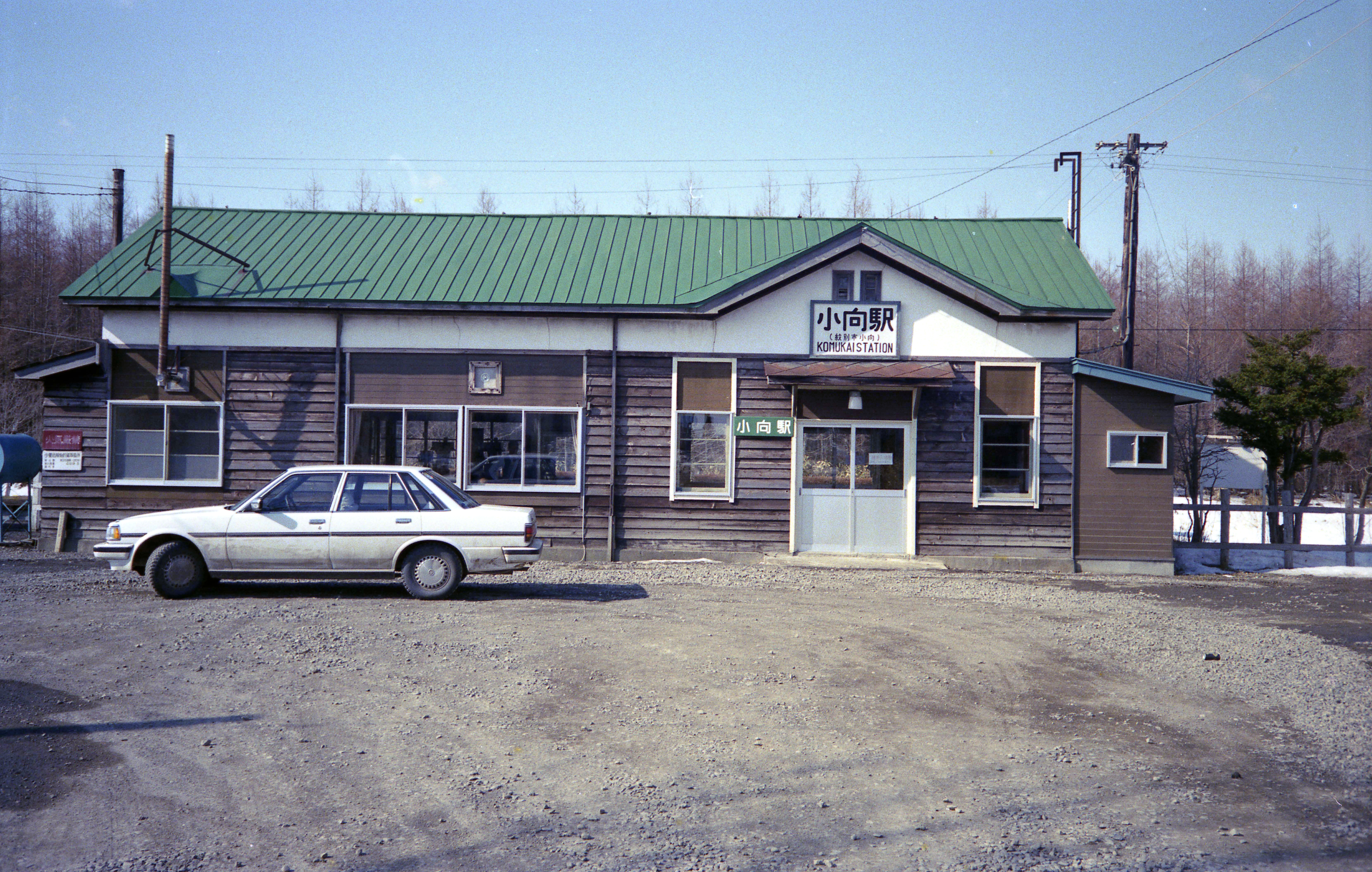 The building of Komukai Station,Hokkaido Railway Company Nayoro Main Line(before abolished)